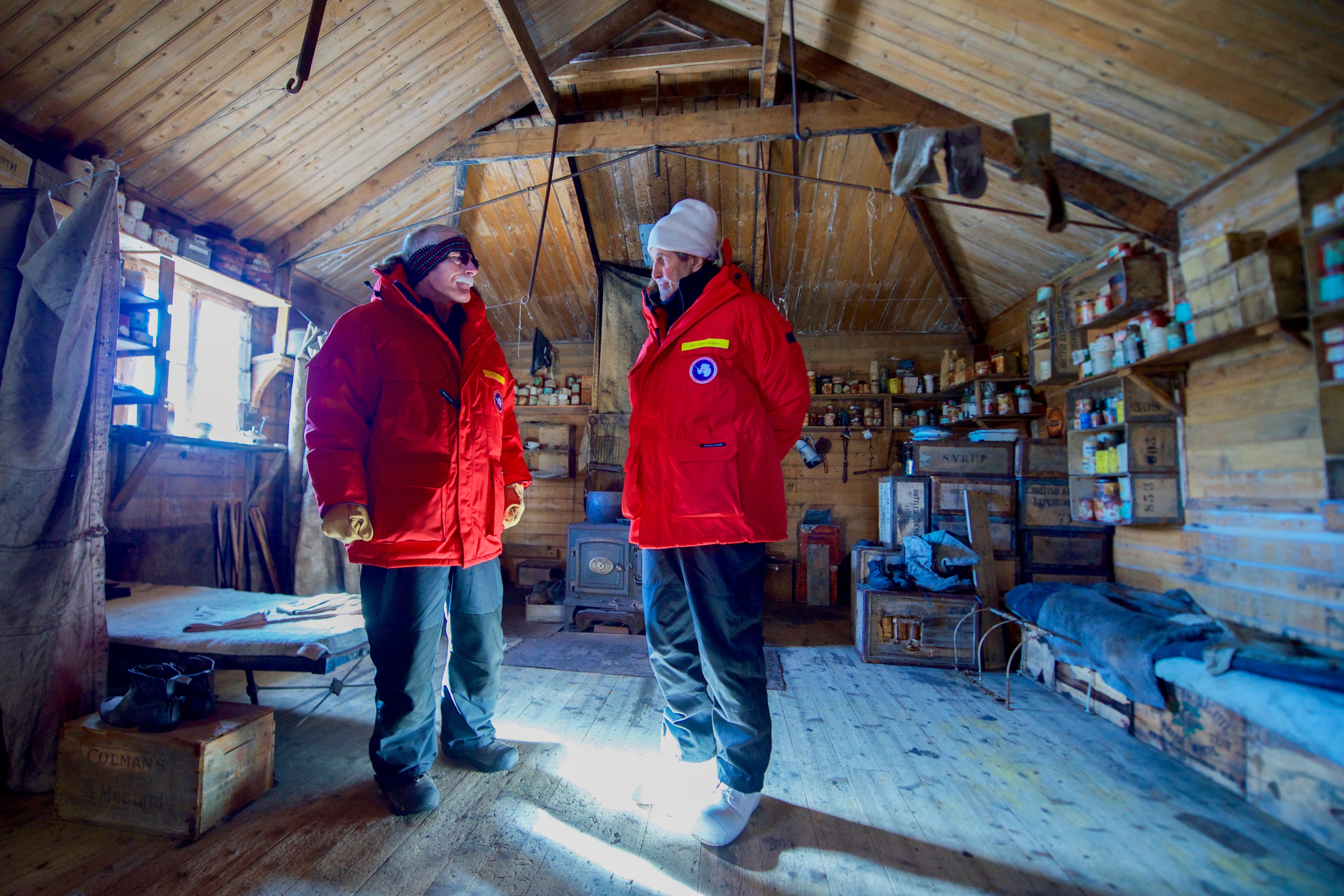 U.S. Secretary of State John Kerry speaks with National Science Foundation Division of Antarctic Sciences Director Scott Borg on November 11, 2016, inside the hut in Cape Royds, Antarctica, where explorer Ernest Shackleton and 14 other men lived in 1908, as the Secretary conducted a helicopter tour of U.S. research facilities around Ross Island and the Ross Sea, and visited the McMurdo Station in an effort to learn about the effects of climate change on the Continent. [State Department Photo/ Public Domain]